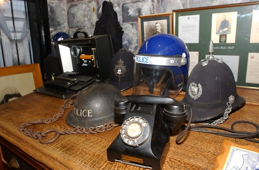 Coventry Police's Museum inhabits the basement of the city centre's police station in Little Park Street. It houses historic memorabilia, police uniforms through the ages, confiscated weapons and tales of some of Coventry's most infamous crimes - including Mary Ball who was hanged for poisoning her husband with arsenic in 1849 in front of an estimated crowd of 20,000 onlookers. She was the last woman to be publicly executed in Coventry and the death mask of her face welcomes visitors to the museum as they come in through the door. The charge desk in the photograph sat in the cell block well over hundred years ago. This image forms part of the West Midlands Police 'Photo of the Day 2012' project.